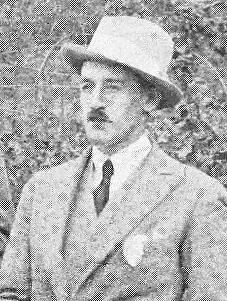 Thomas Alexander Barns, Explorer and collector, at the Hill Museum, July 20, in Witley, Surrey.